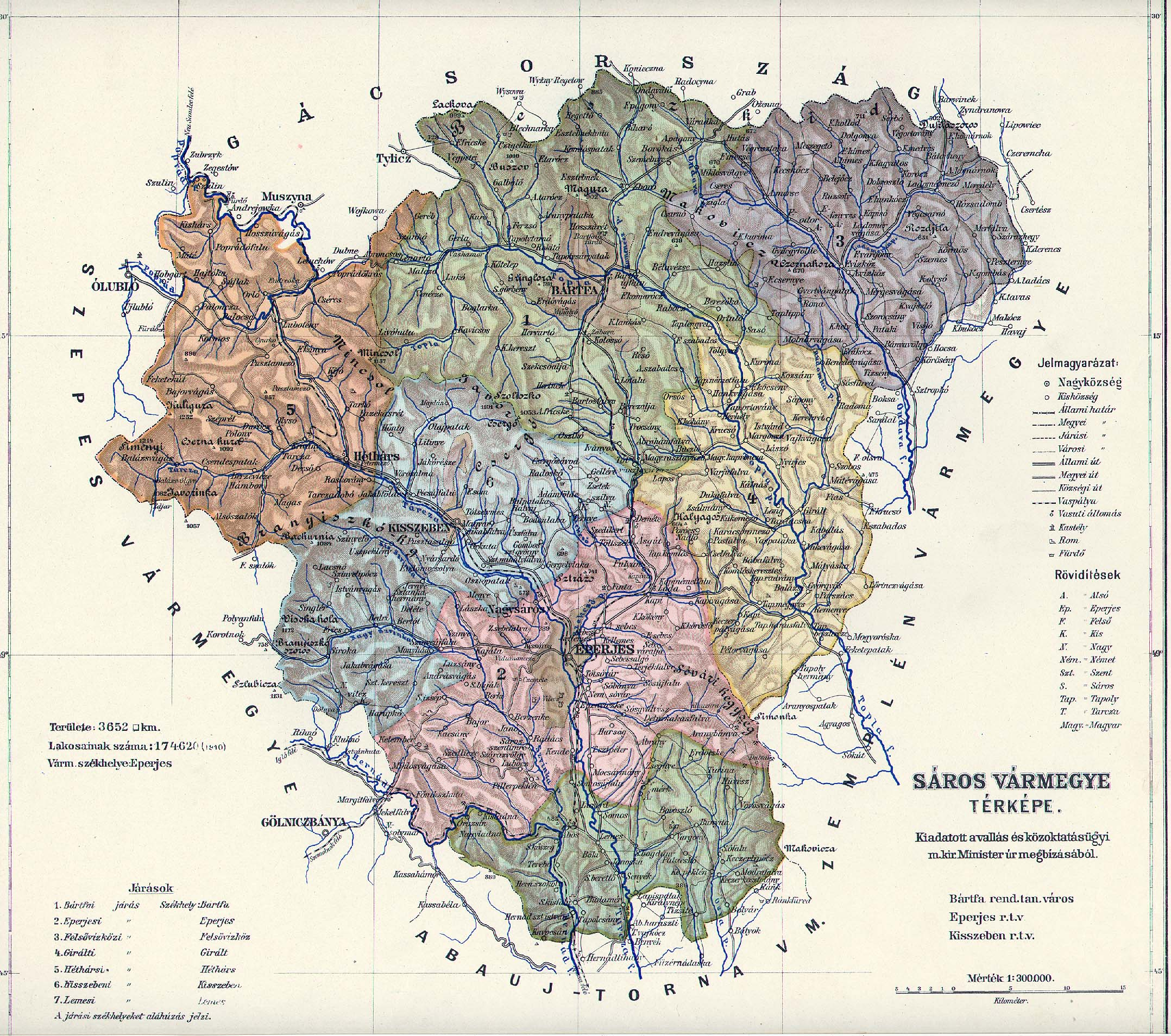 Administrative map of the county of Sáros in the Kingdom of Hungary